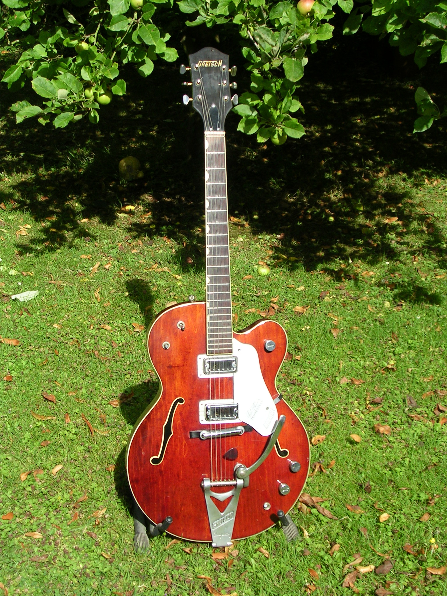 1963 Gretsch Tennessean Guitar